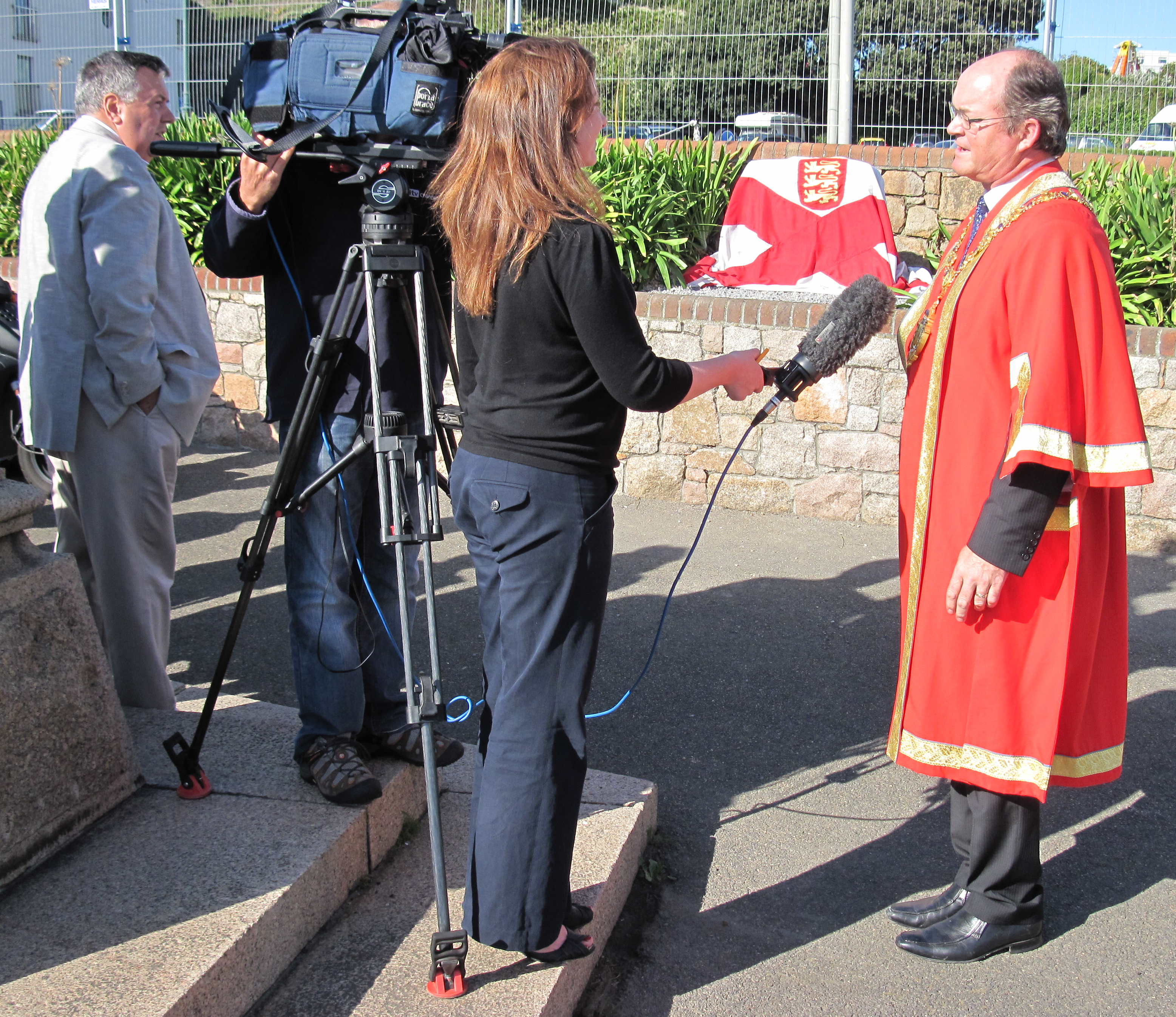 Battle of Flowers: 9 August 2011 - unveiling of a plaque in the Lower Park commemorating 60 years of unbroken annual festivals along Victoria Avenue since the post-Liberation revival of the Battle of Flowers celebrations